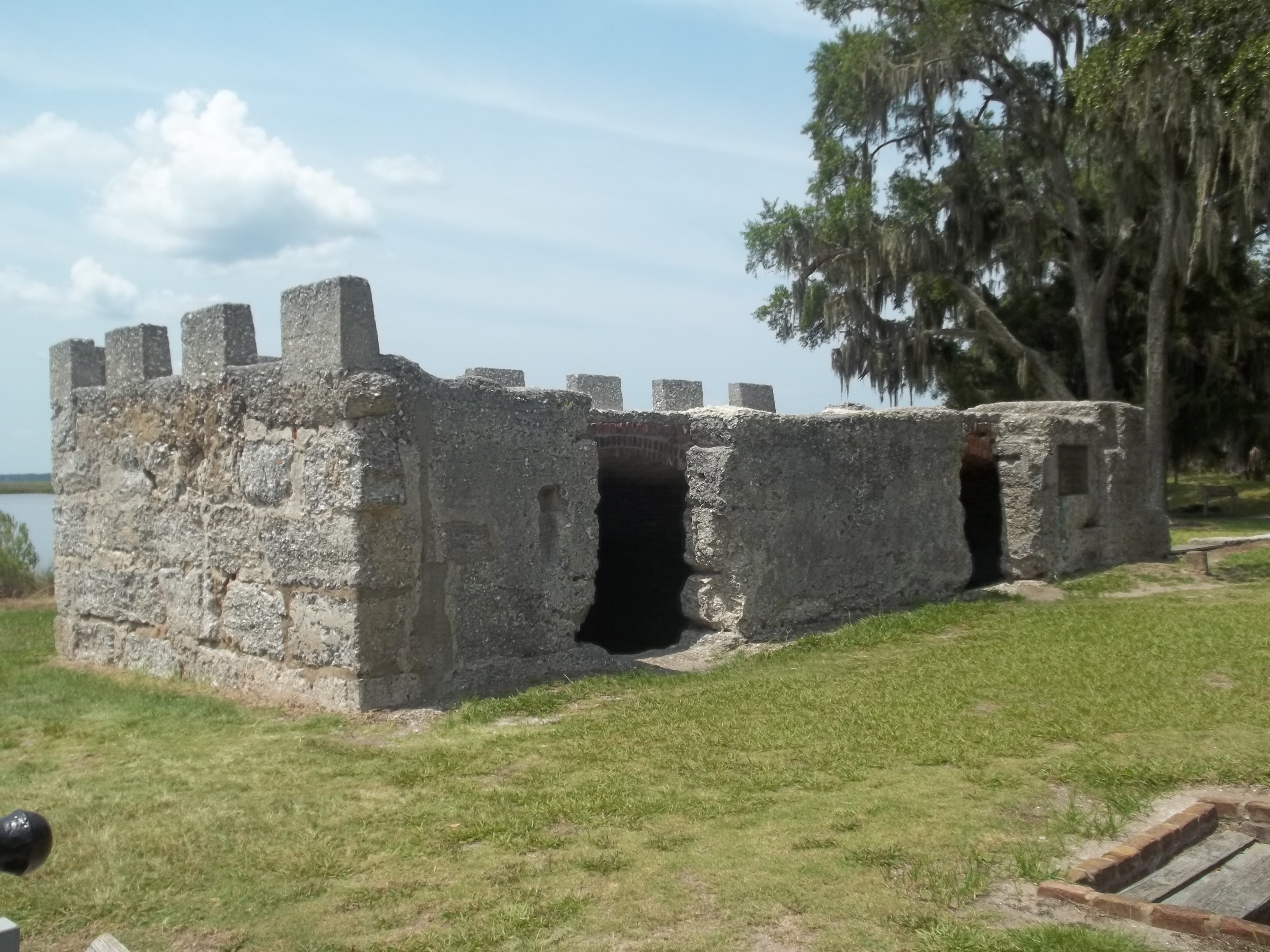 St. Simons, Georgia: Fort Frederica National Monument